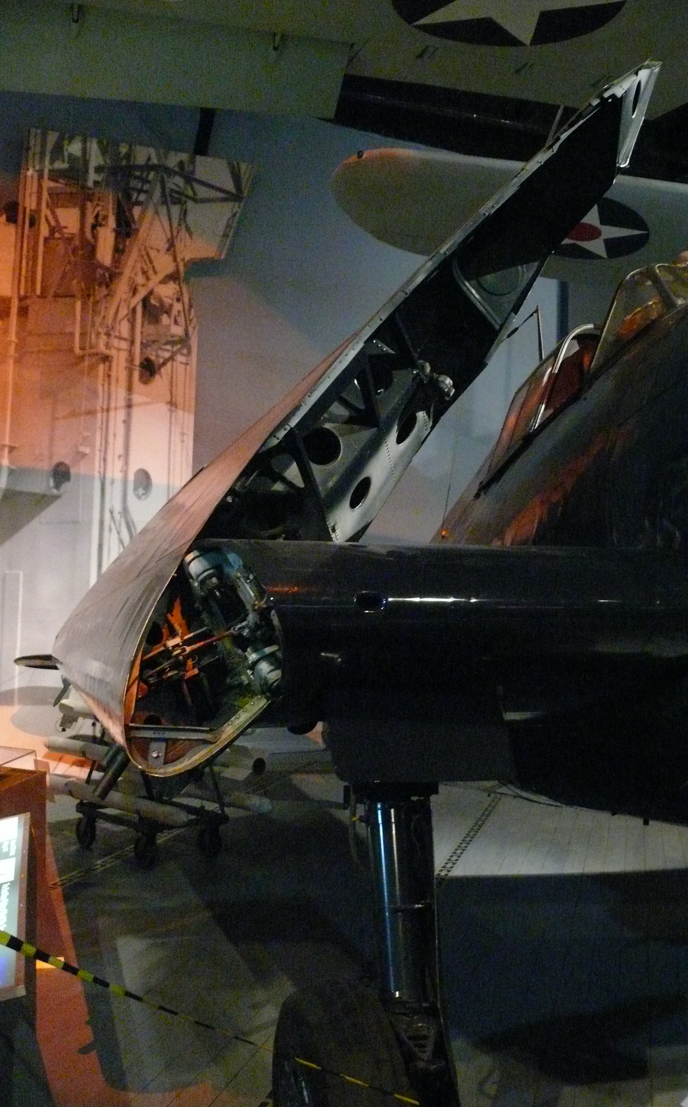 Grumman F6F Hellcat in the Cradle of Aviation Museum. The Grumman F6F Hellcat was a carrier-based fighter aircraft developed to replace the earlier F4F Wildcat in United States Navy service.